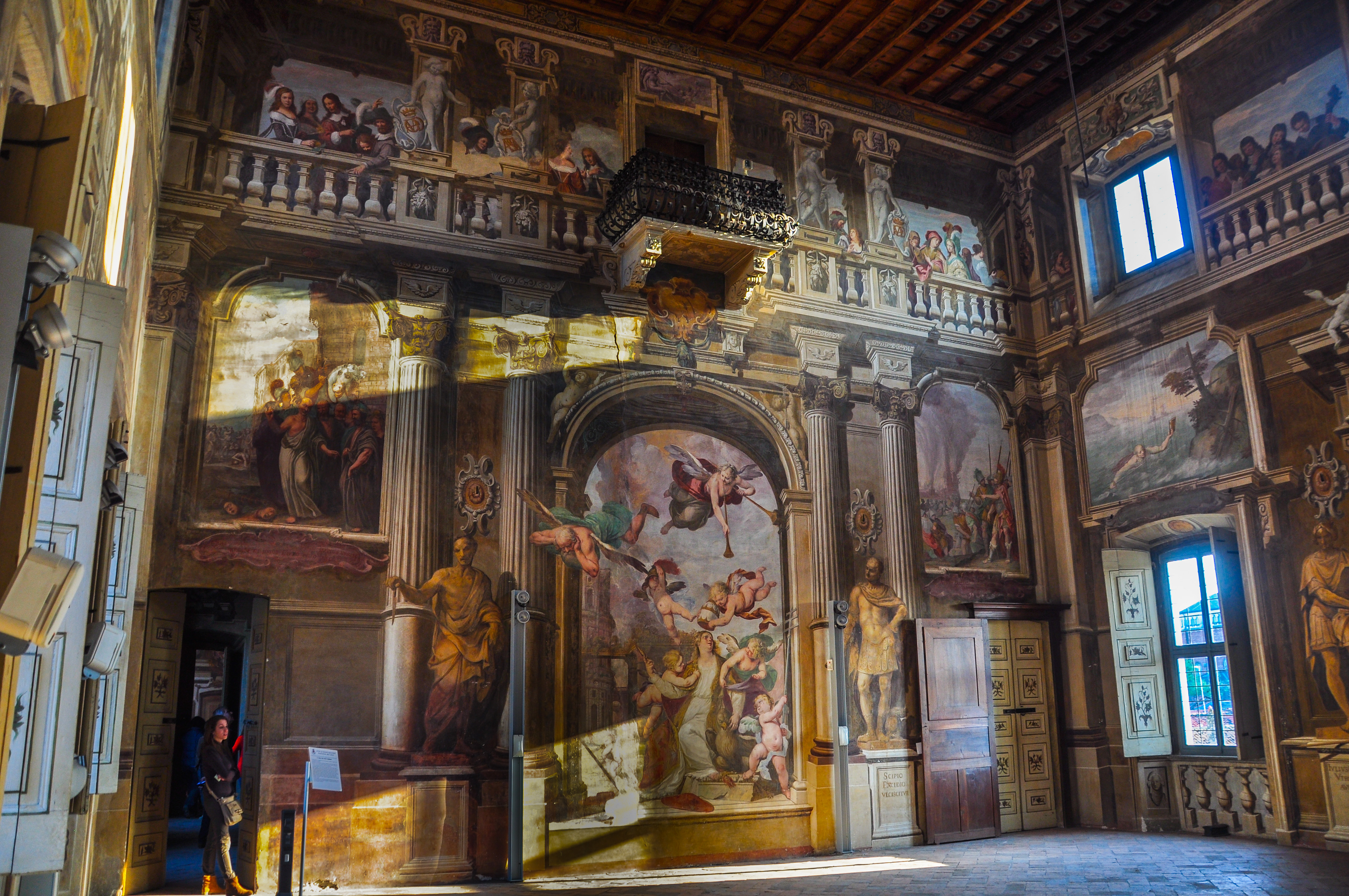 south wall